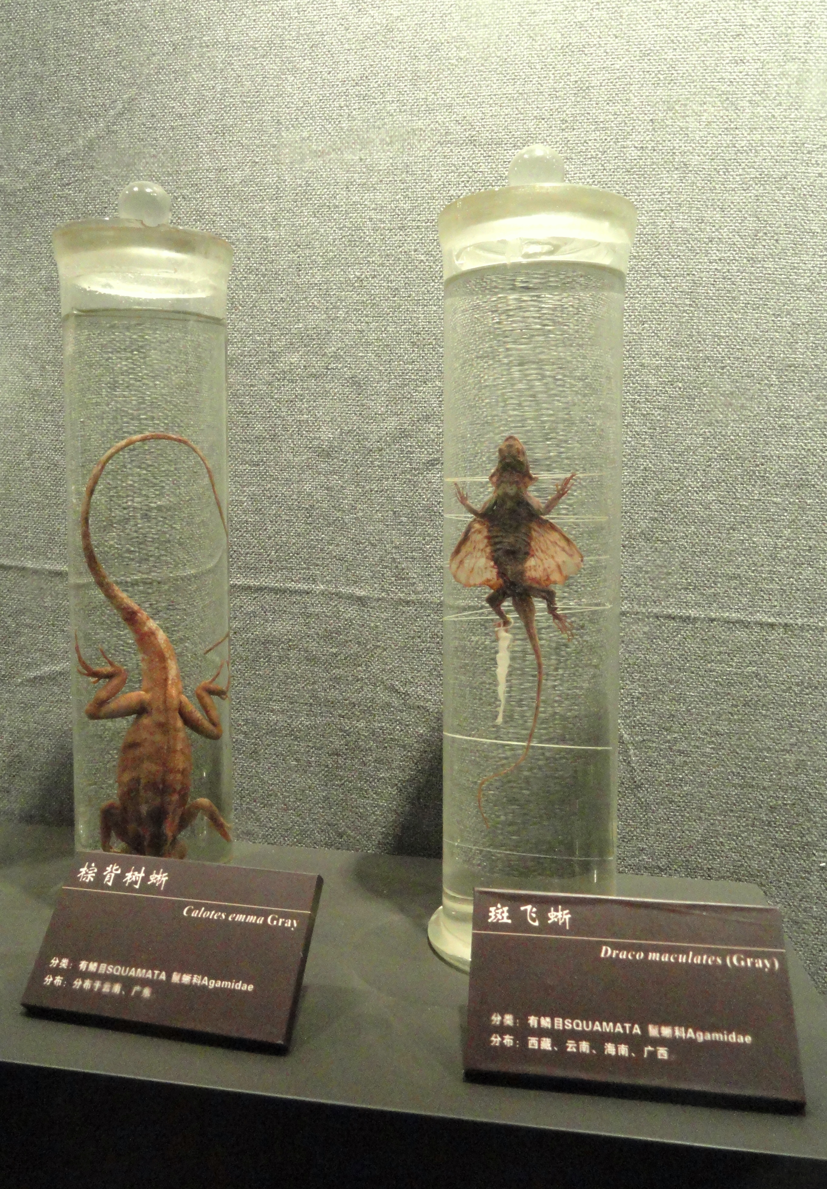 Preserved specimens (Left: Calotes emma, right: Draco maculatus) in the Kunming Natural History Museum of Zoology (昆明动物博物馆), Kunming, Yunnan, China.